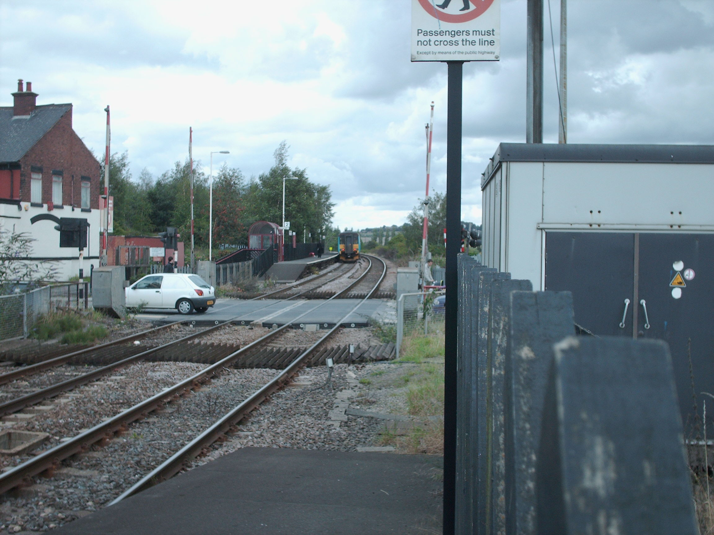 Featherstone railway station, West Yorkshire, England. 156479 departing.